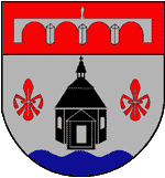 Coat of arms of Echternacherbrück